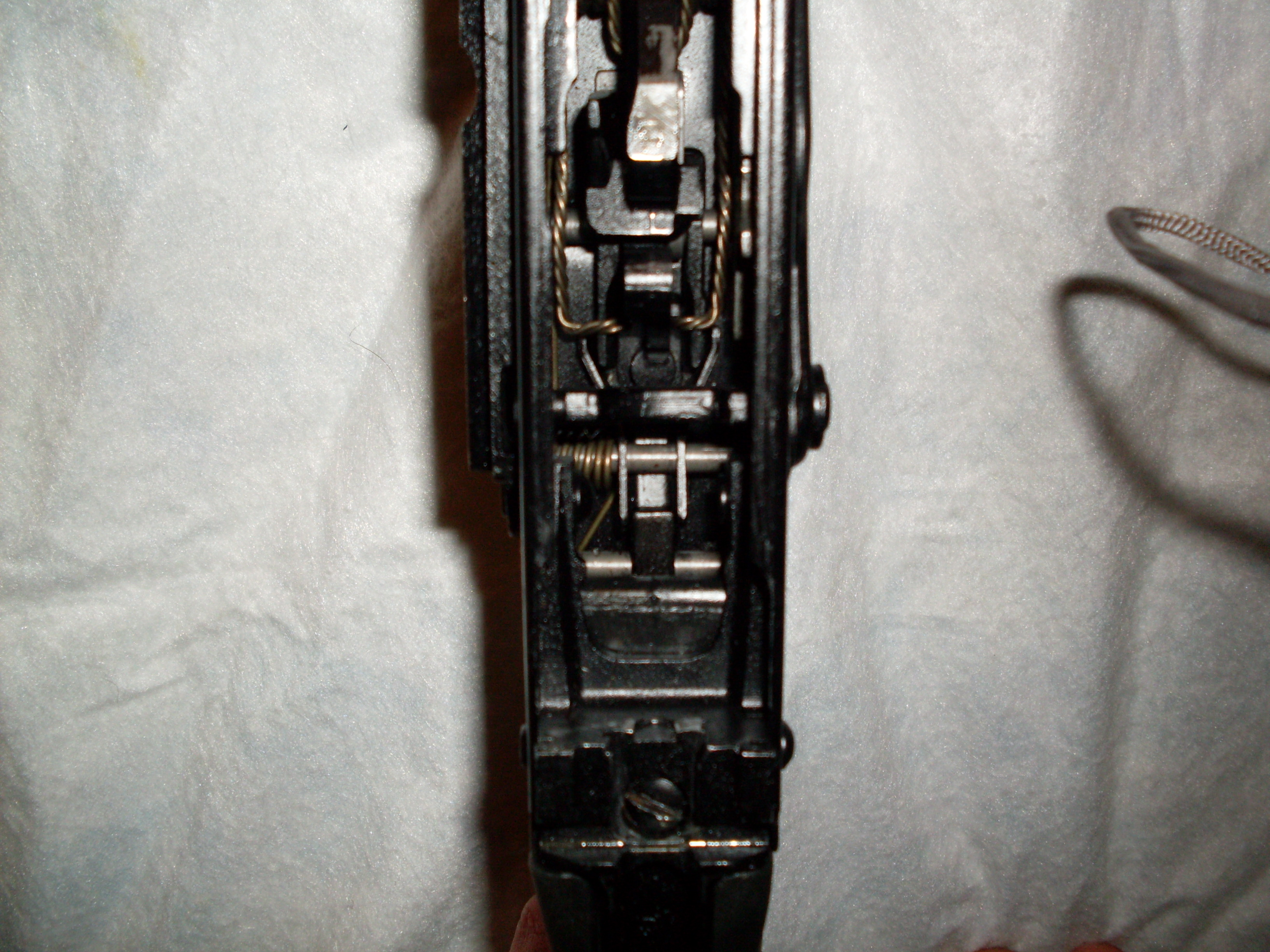 A look at the transfer bar system of the saiga